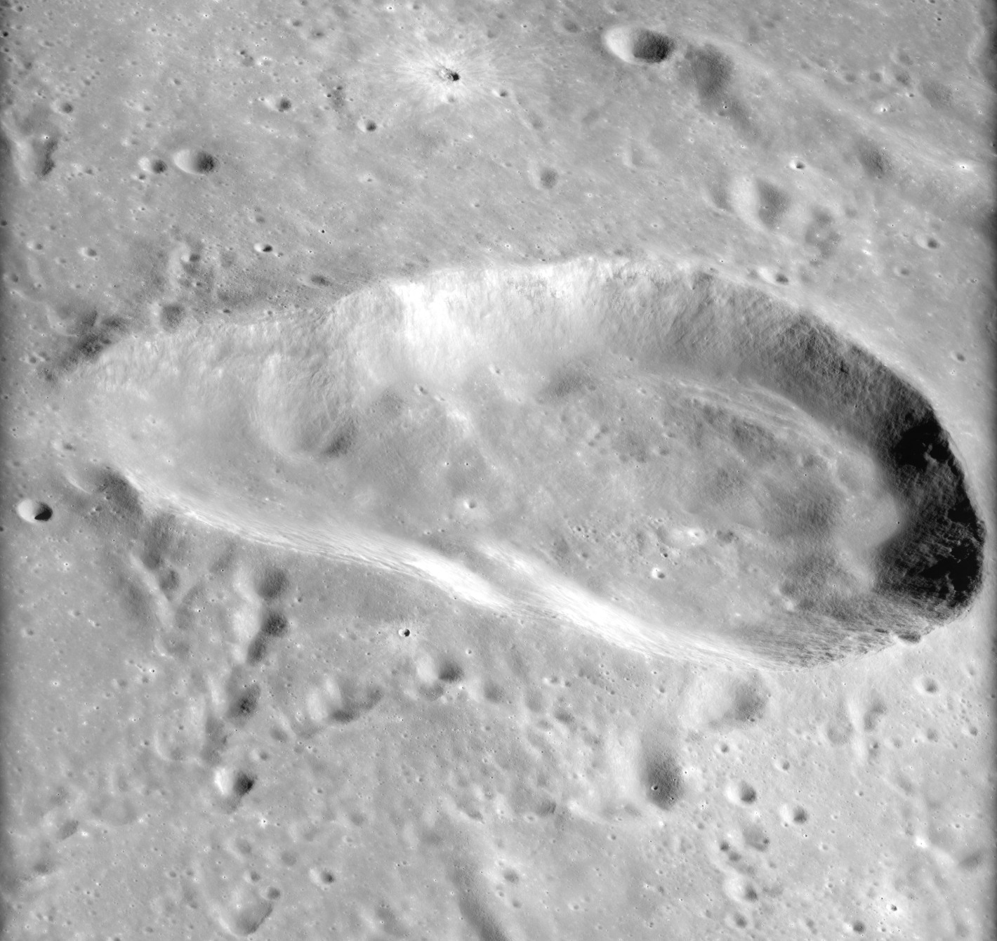 Torricelli crater on the Moon. A is a partly-developed septum at the merger between the two craters; B and C are overlapping clusters thought to be formed by secondary impacts from the Theophilus crater to the southwest. Sun elevation is 29°.